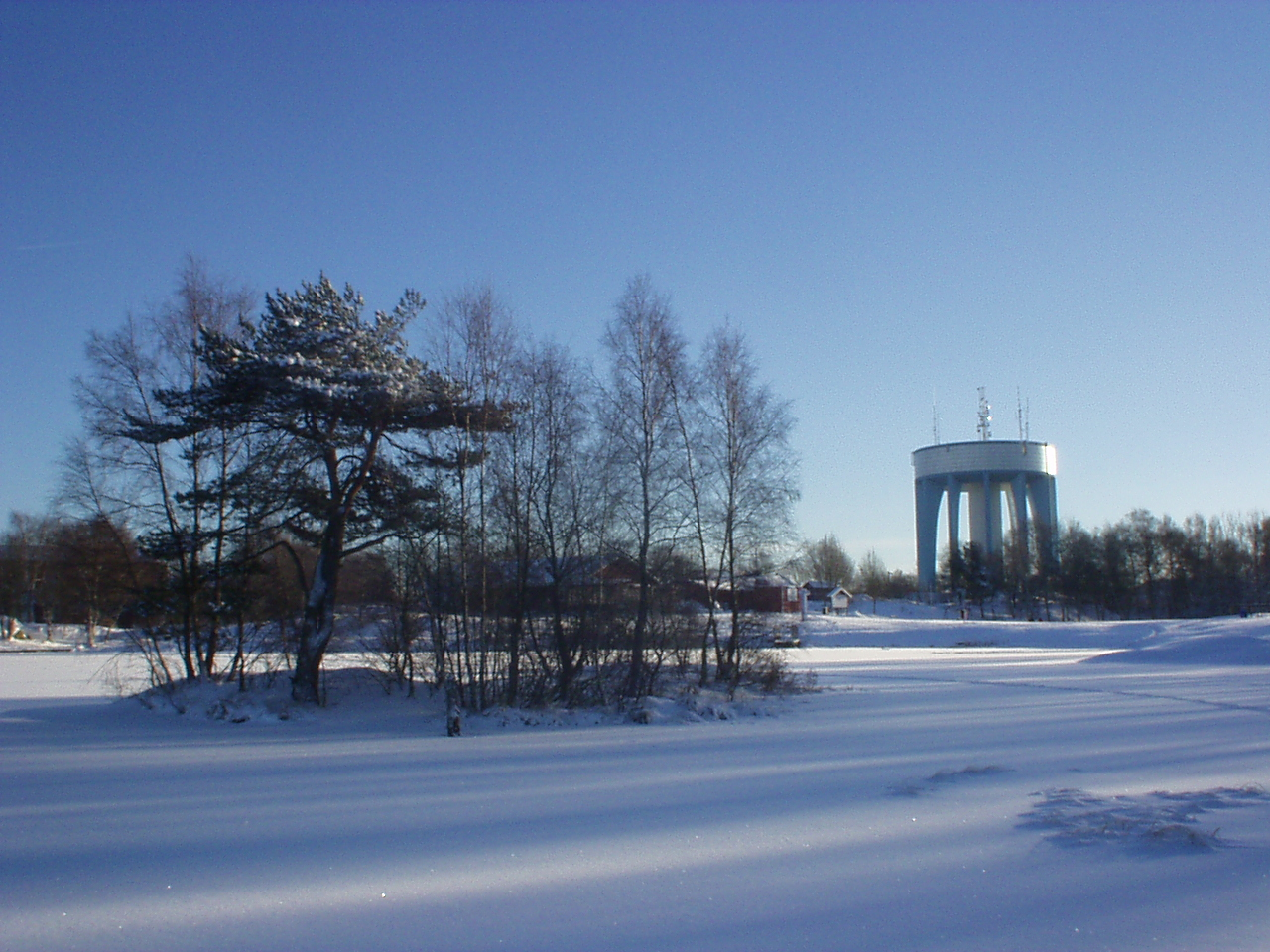 Svarte mosse at winter with vattentornet